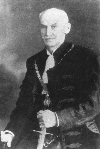 Lajos Méhelÿ (1885-1952) Hungarian zoologist